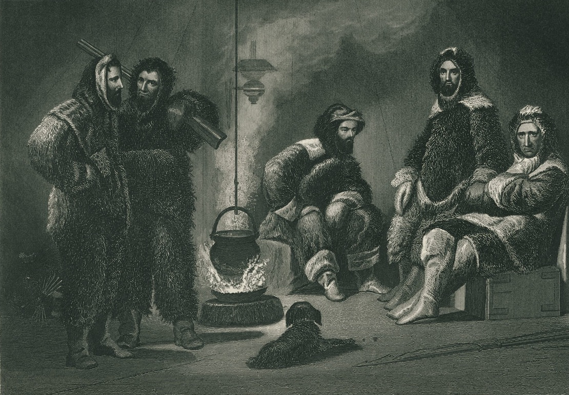 "Life In The Brig: Second Winter"